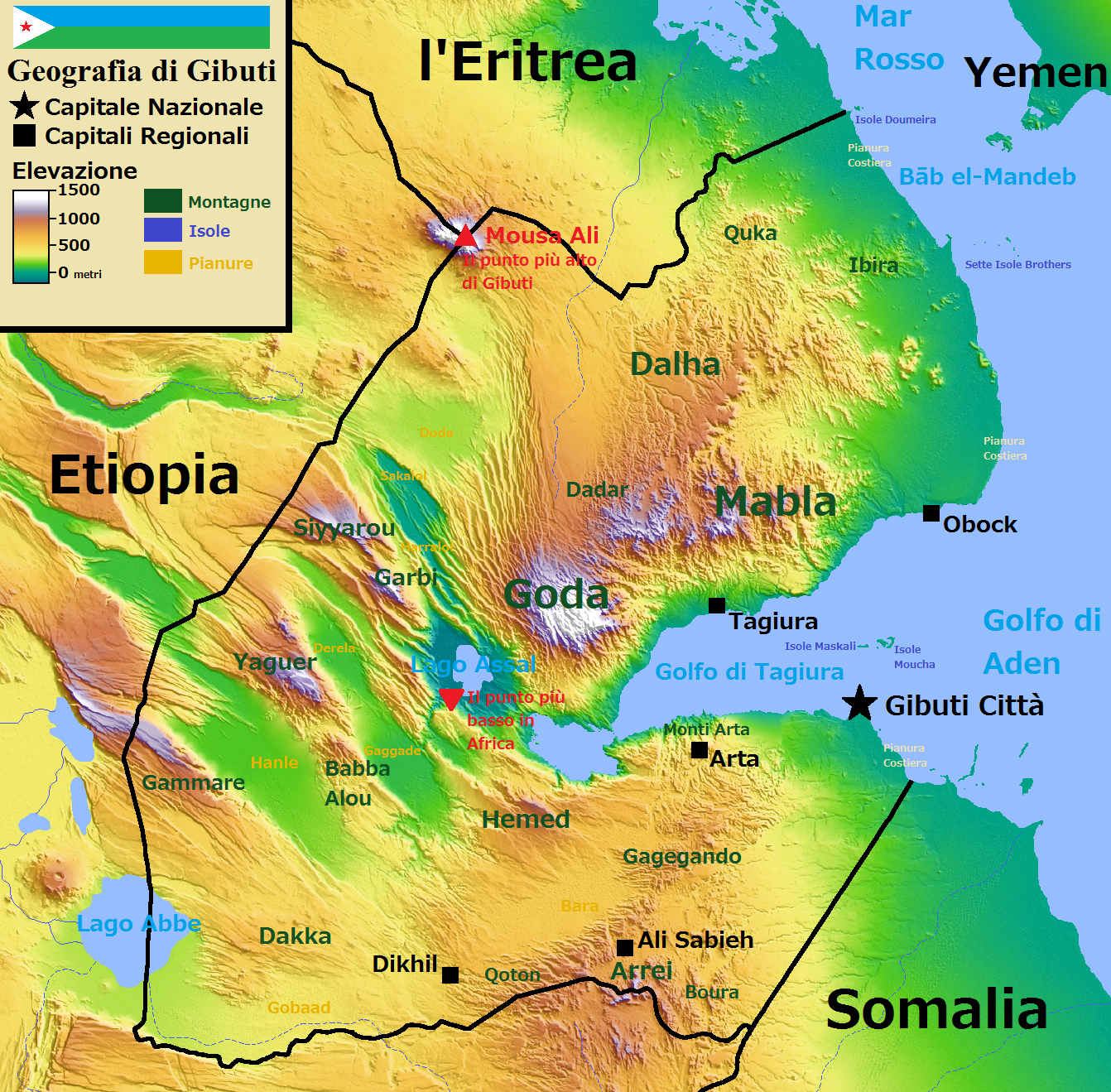 Map of Djibouti in Italian